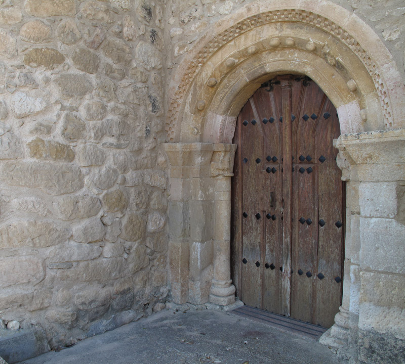 Main entrance of St. Marina Church in Bardauri (Mirandam de Ebro, Spain)